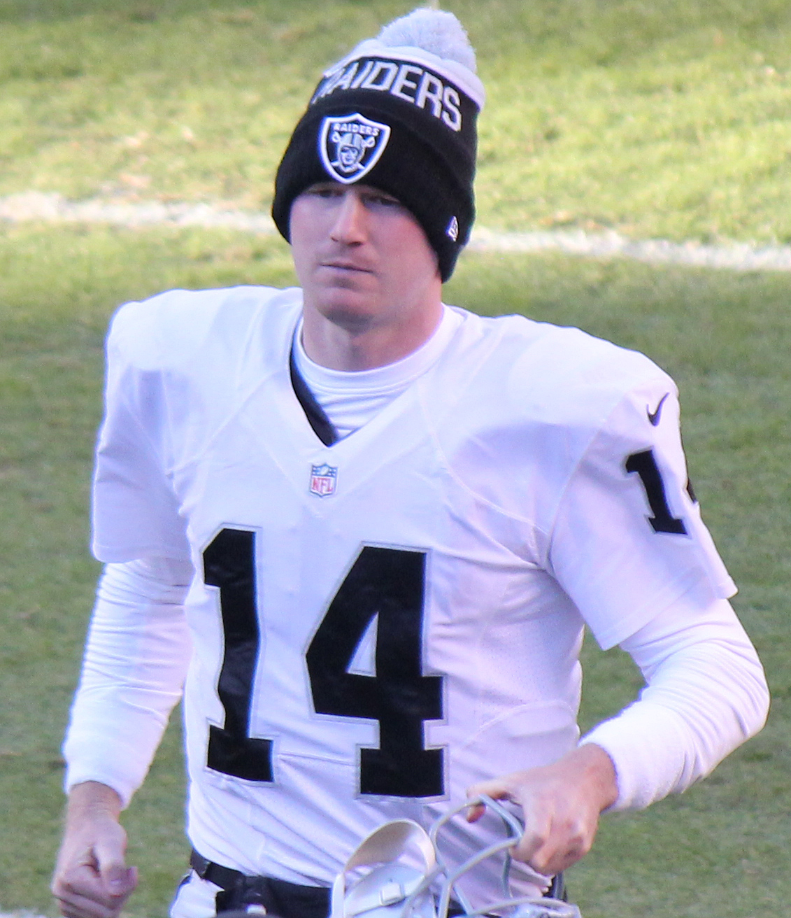 Matt McGloin, a player on the National Football League.